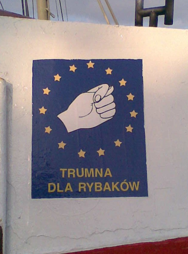 "Trumna dla rybaków" ("Coffin for fishermen") sign visible on side of many Polish fishing boats. Polish fishermen protest against EU prohibition of fishing cod by Polish ships. Picture taken in Jastarnia harbour.